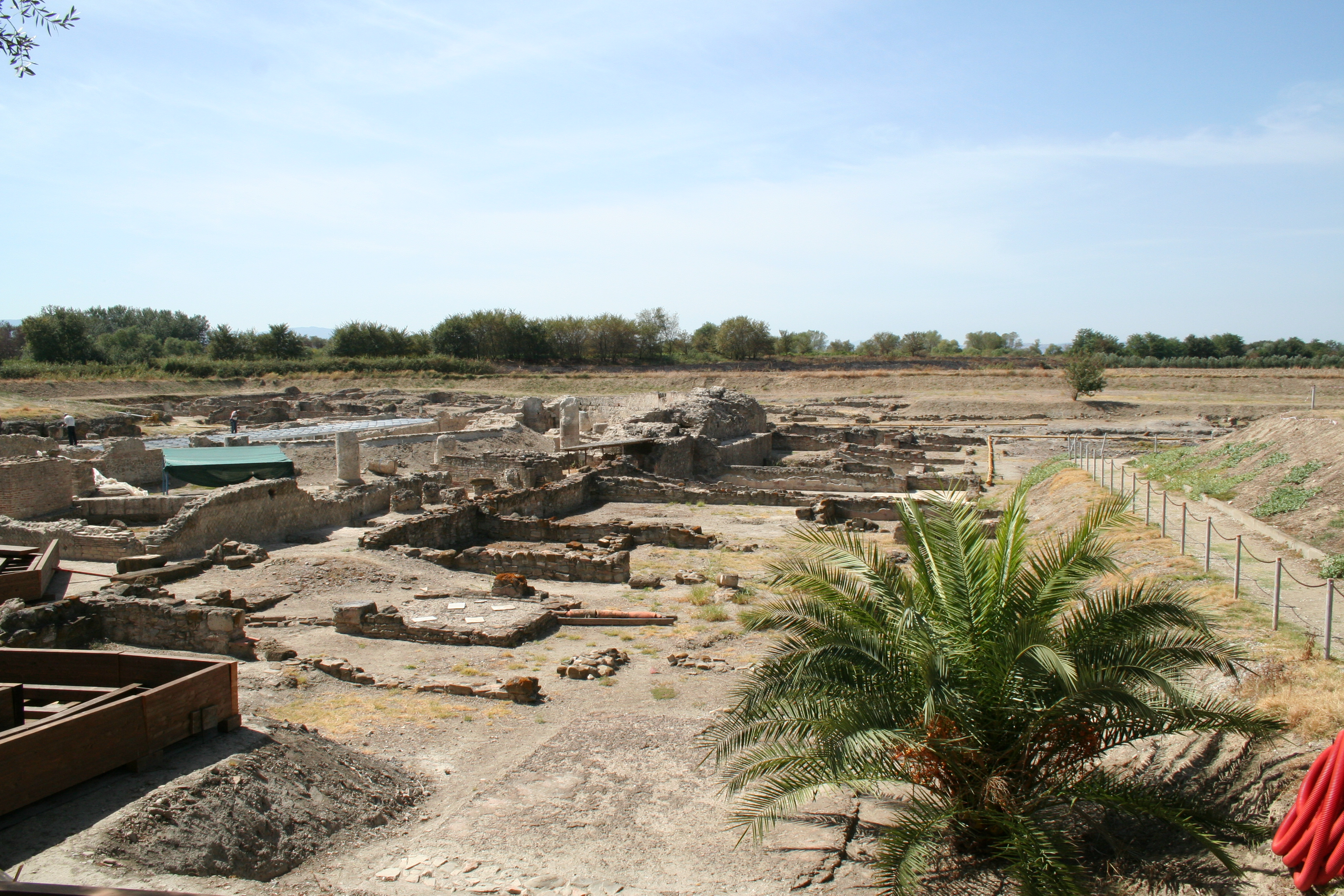 Overview of excavated ruins in the archeological park of Sybaris. The later cities of Thurii and Copia were partially superimposed over the older settlement. The author and uploader have not been able to identify to which settlement these remains belong.